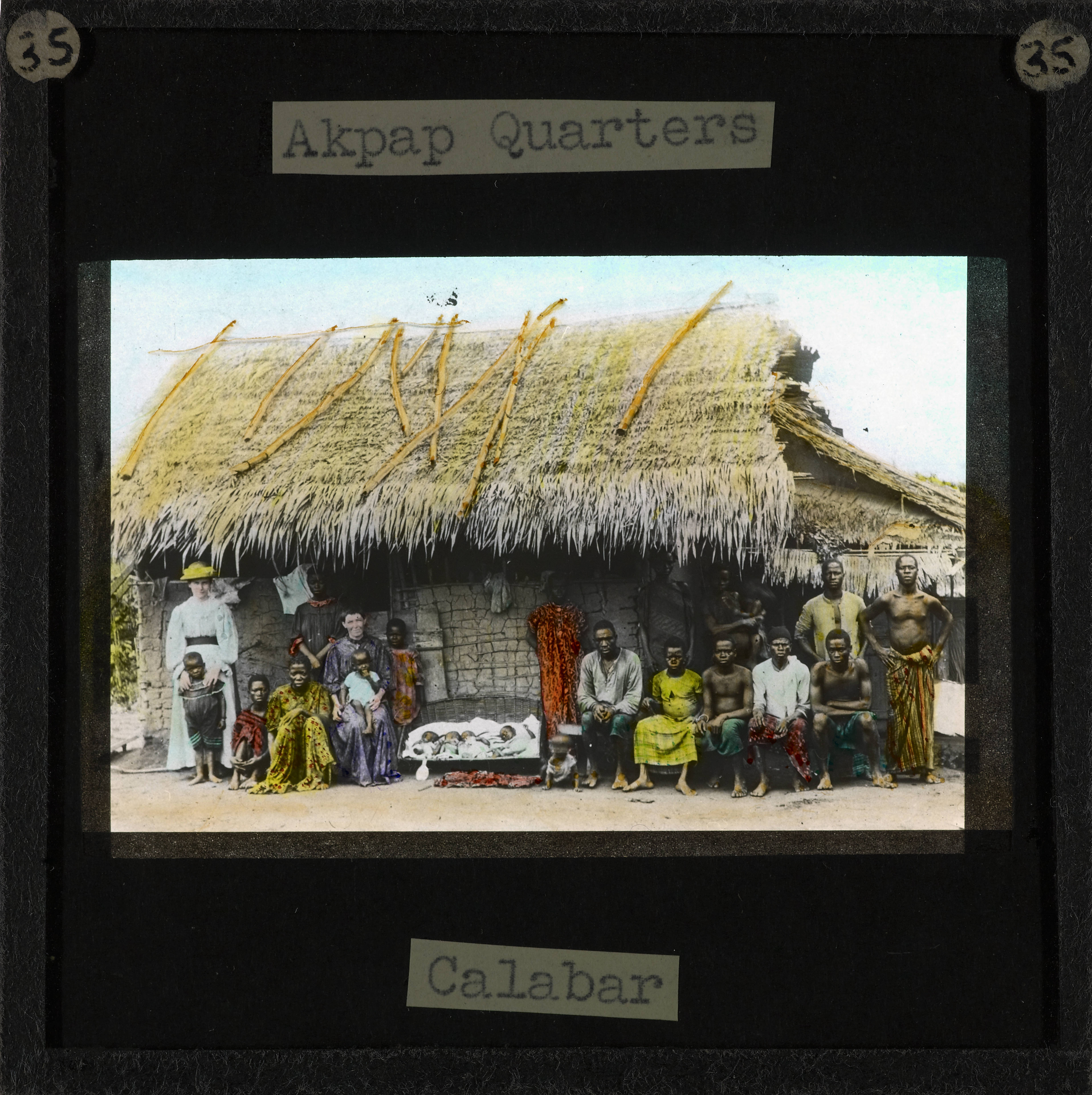 Mary Slessor's House at Akpap, late 19th century "Akpap Quarters". Image of Mary Slessor and a group of villagers gathered outside her living Quarters in the village of Akpap. The house is windowless with mud walls and a thatched roof. A basket of babies can be seen beside Mary Slessor.; Akpap Village in Calabar was home to Mary Slessor, the Scottish Missionary, for a number of years. She lived in this basic accommodation until a house was built for her. Photographer: Unknown Subject (personal name): Slessor, Mary Mitchell, 1848-1915 Filename: imp-cswc-GB-237-CSWC47-LS2-035.tif Coverage date: circa 1880 Part of collection: International Mission Photography Archive, ca.1860-ca.1960 Type: images Part of subcollection: Photographs from the Centre for the Study of World Christianity, University of Edinburgh, U.K., ca.1900-ca.1940s Repository name: Centre for the Study of World Christianity Archival file: impaunpub_Volume7/1309.url Repository address: The University of Edinburgh School of Divinity, New College, Mound Place, Edinburgh EH1 2LX, United Kingdom Geographic subject (country): Nigeria Format (aacr2): 1 lantern slide : 8 x 8 cm. Geographic subject (continent): Africa Rights: Contact the repository for details. Part of series: Mary Slessor LS2 Repository Subject (lcsh Keyword): Dwellings; Village communities Date created: circa 1880 Publisher (of the digital version): University of Southern California. Libraries Subject (aat genre): group portraits Format (aat): lantern slides Legacy record ID: impa-m68179 Access conditions: File: GB 237 CSWC47/LS2/35